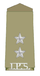 Rank Insignia of Assistant Superintendent of Police (I.P.S. Probationary rank)